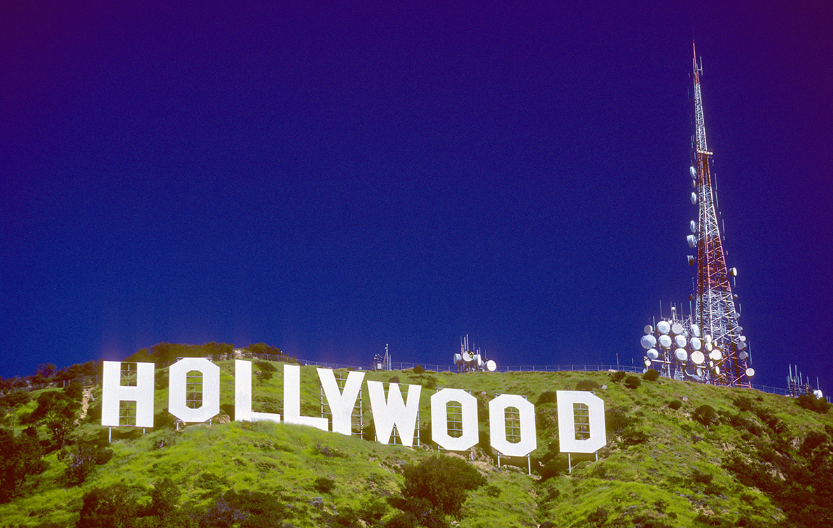 Hollywood sign photographed with a telephoto lens from a nearby walking path